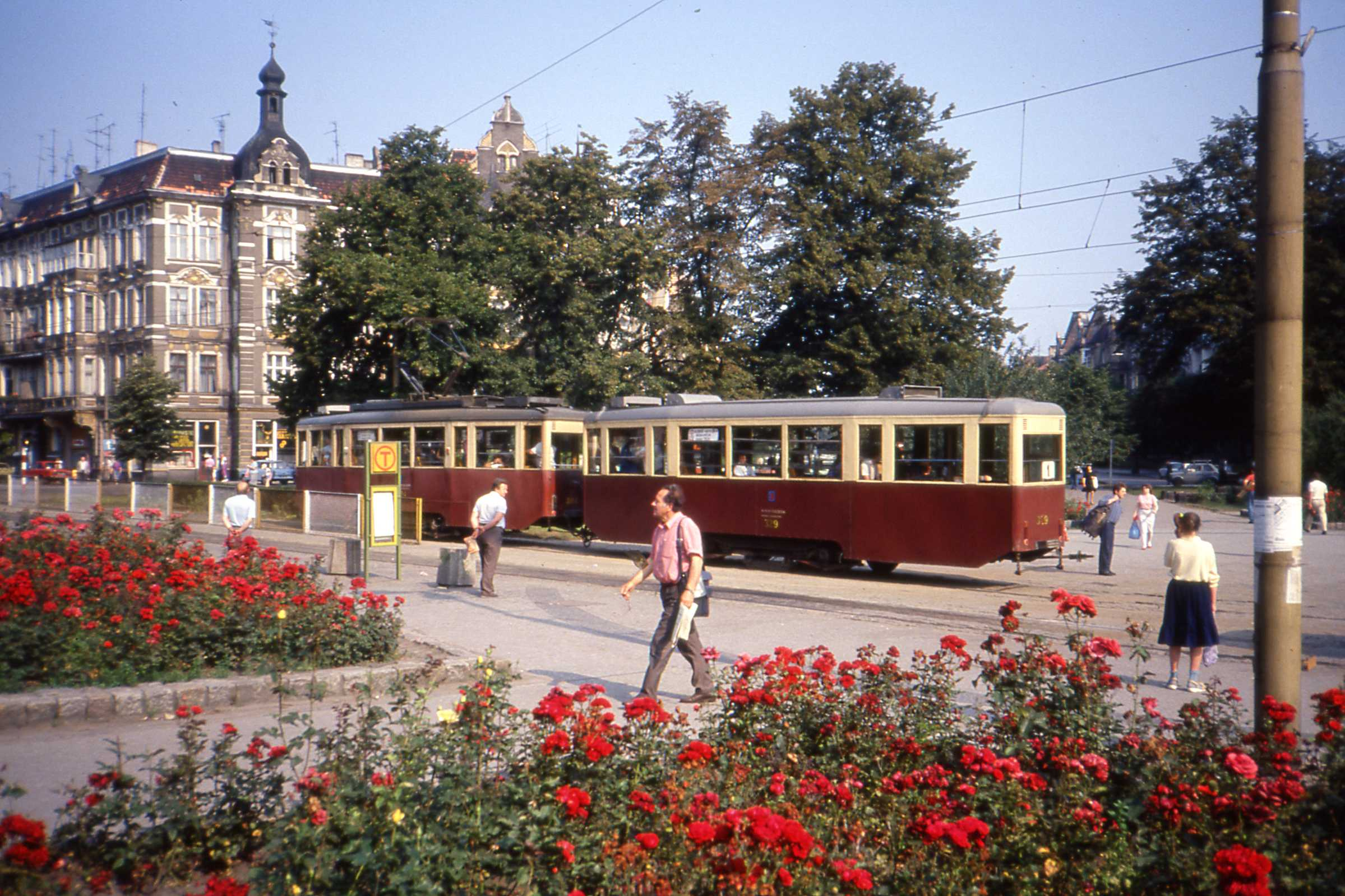 Trailer car 329 of a 2-car unit on Route 1, Glębokie to Grabowa, later Potulicka. At this time, a tram ticket cost 240 Zlotys.